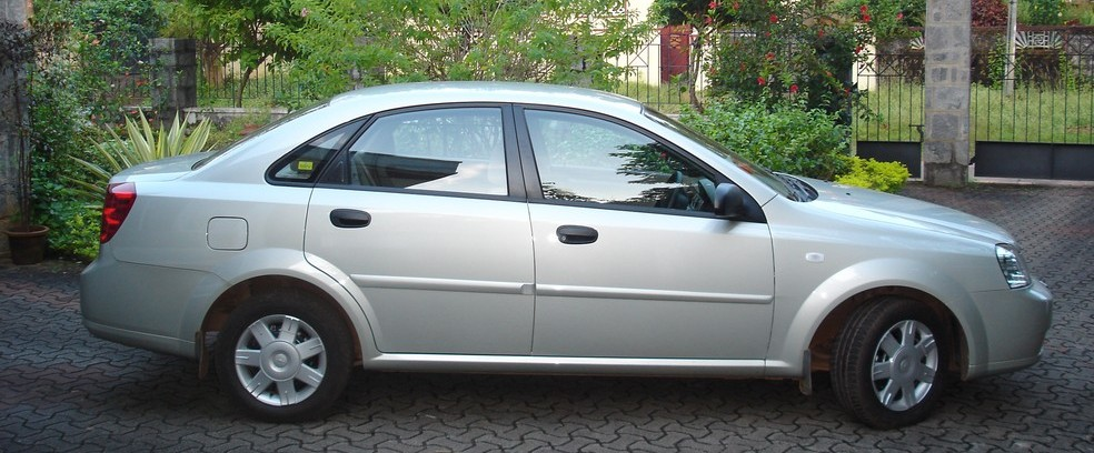 2006 Chevrolet Optra, 1.6 Elite, Indian edition